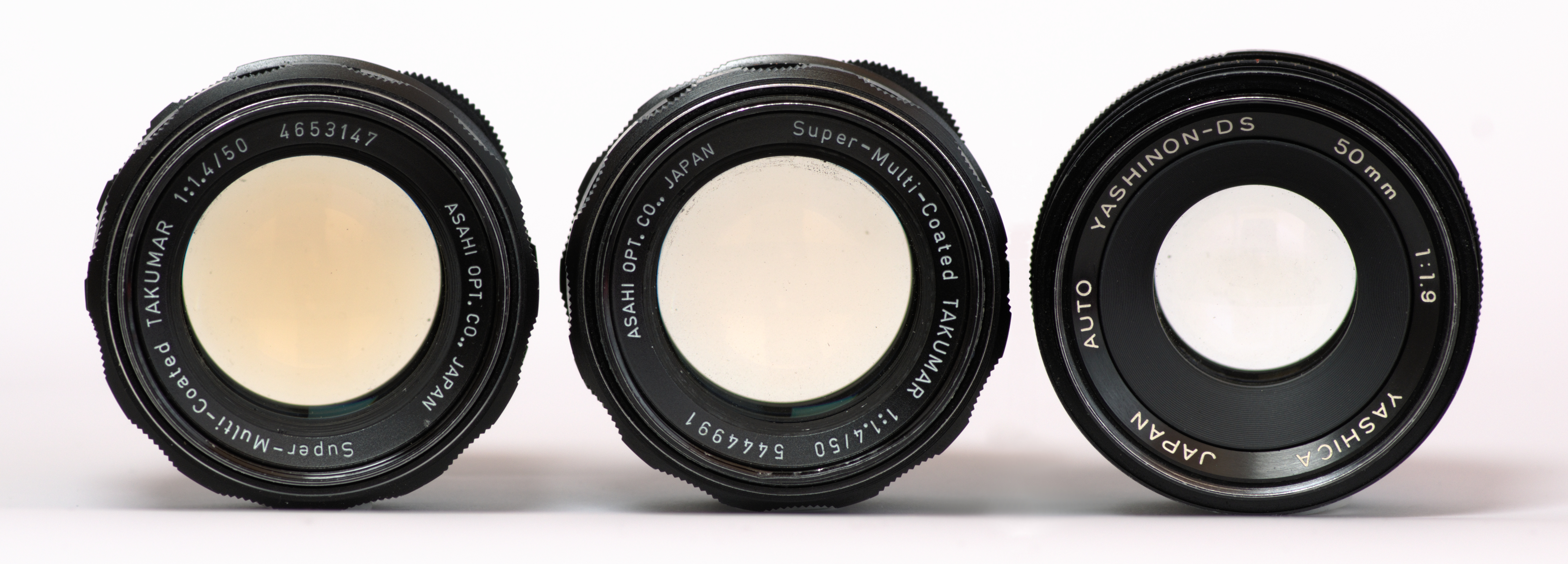 Some older photographic lenses were produced with glass elements containing small amounts of thorium. If stored in the dark for prolonged periods of time, these lenses can experience what is commonly called “yellowing”. While some photographers enjoy the effect the yellowed glass has on their photographs (it acts similar to a weak yellow filter), others prefer to reverse it by exposing the lens to a UV light source. left: a yellowed Super-Multi-Coated Takumar 50mm F1.4 center: an identical lens that had the same amount of yellowing, but was treated with a LED-based UV-emitting flashlight for several days until the yellowing almost disappeared. right: an Auto Yashinon-DS 50mm f1.9 that showed no signs of yellowing for comparison Please note: Not all lenses that appear yellow do so because of “yellowing” – many lens coatings do look golden/yellow/brown as well.